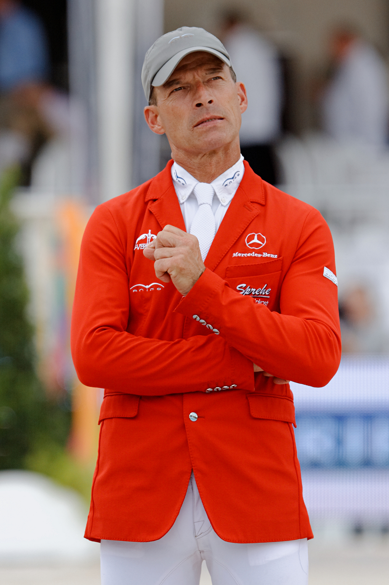 Switzerland's Pius Schwizer walks the course before the first round of the CSI 5* Longines Global Champions Tour Grand Prix in Paris on 5 July 2014.